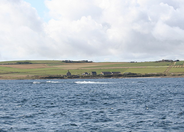 Water breaking on the Skaill Skerries Skaill and its ruined church can be seen to the west on the shores of Sandside Bay.